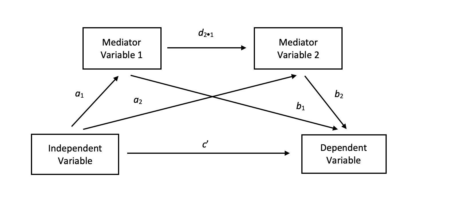 A serial mediation model with two proposed mediator variables. Pathways are named with italicized letters.